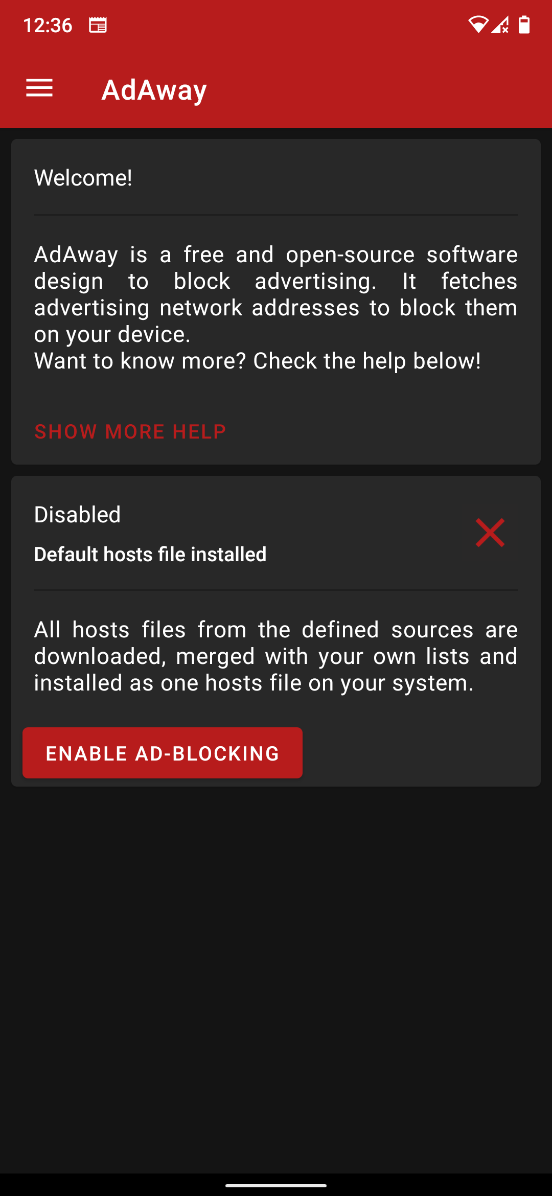 AdAway 4.3.5 homescreen on Android 10